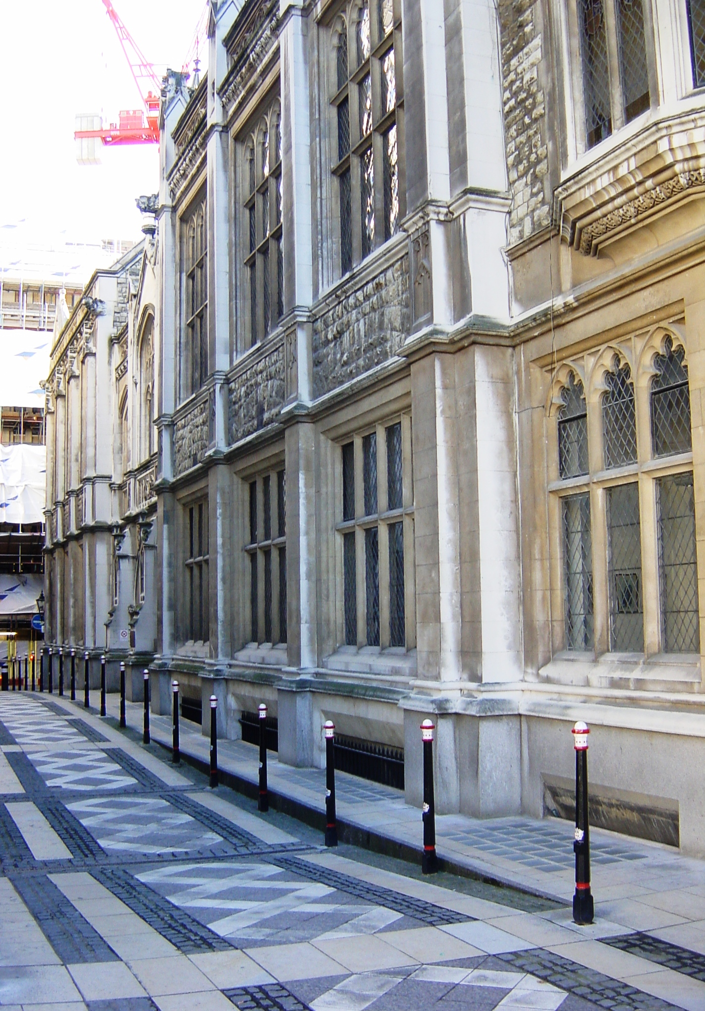 The Mayors and City of London Court, near the Guildhall